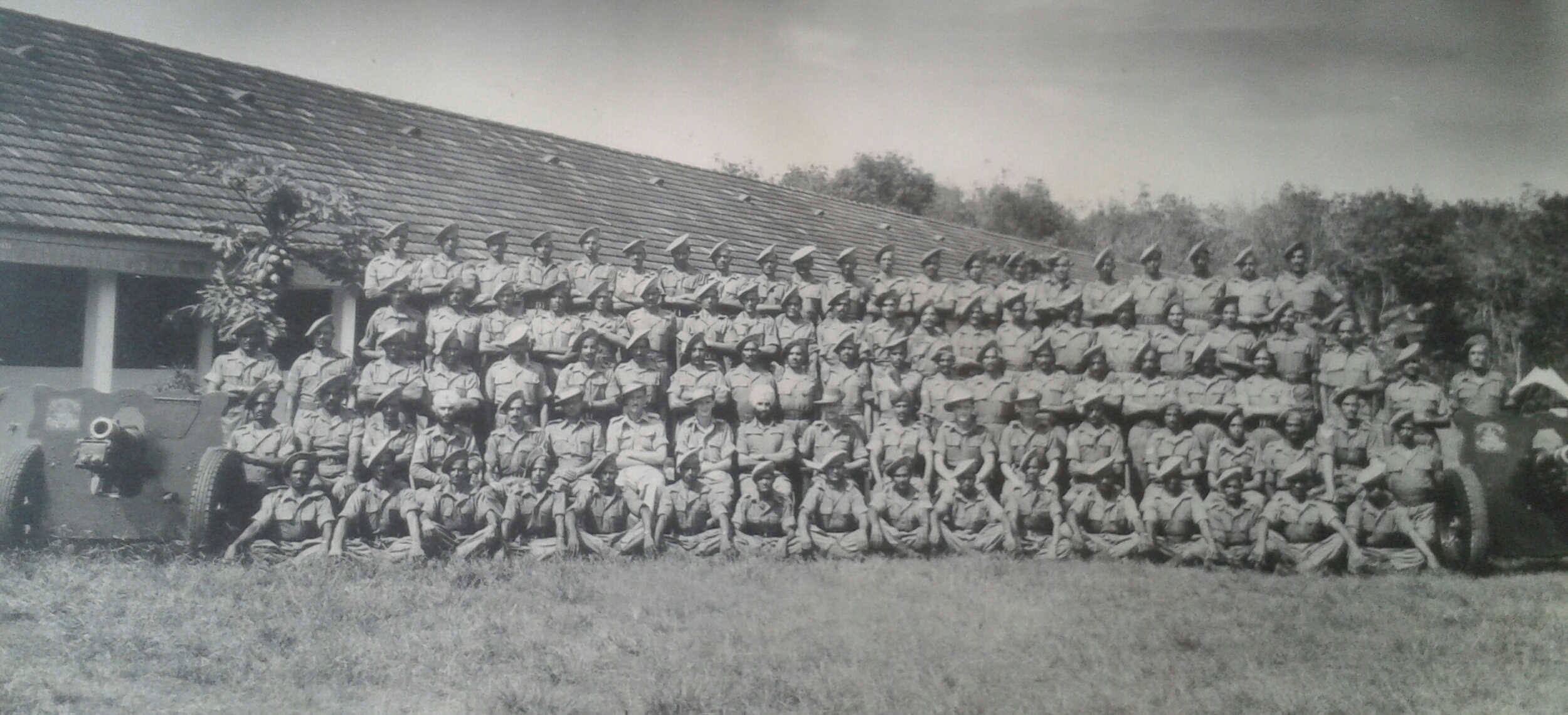 A photograph of an original photograph of the 33rd Indian Mountain Regiment, Royal Indian Artillery, taken in Tanjung Rambutan in late 1945.